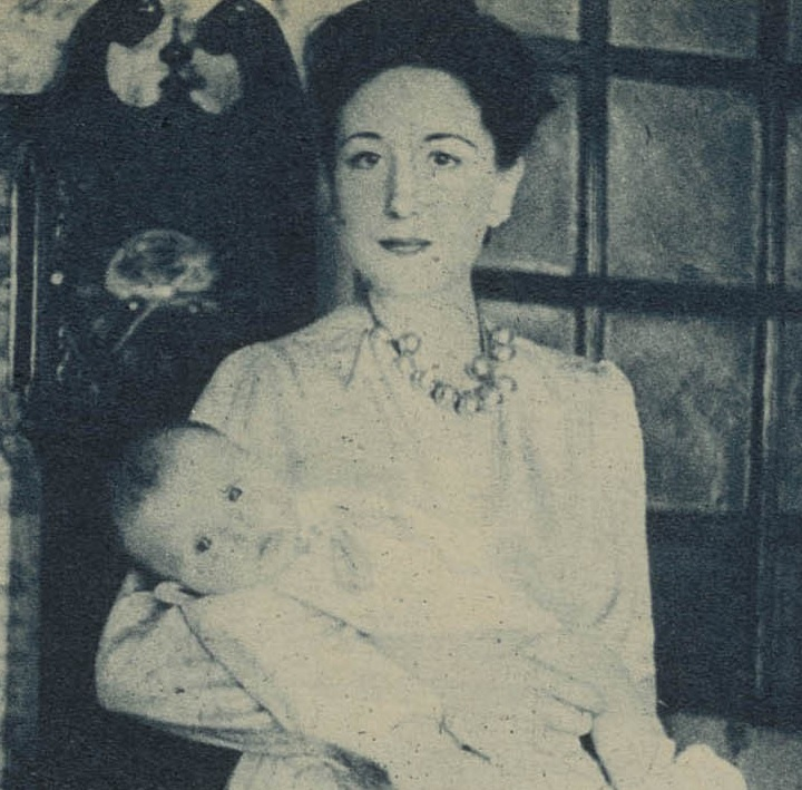 Spanish Actress Mary Carrillo and her daughter Alicia Hurtado Carrillo